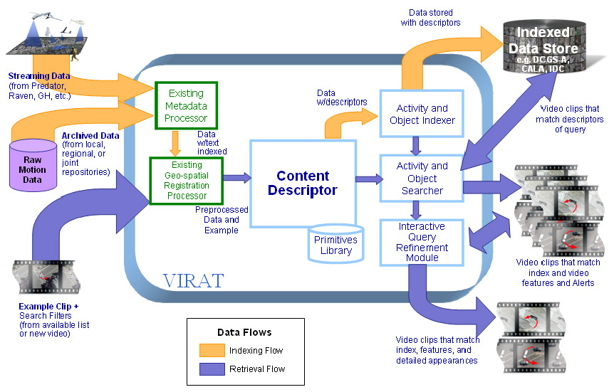 Concept diagram for the Video and Image Retrieval and Analysis Tool (VIRAT) developed by the Information Processing Technology Office of DARPA